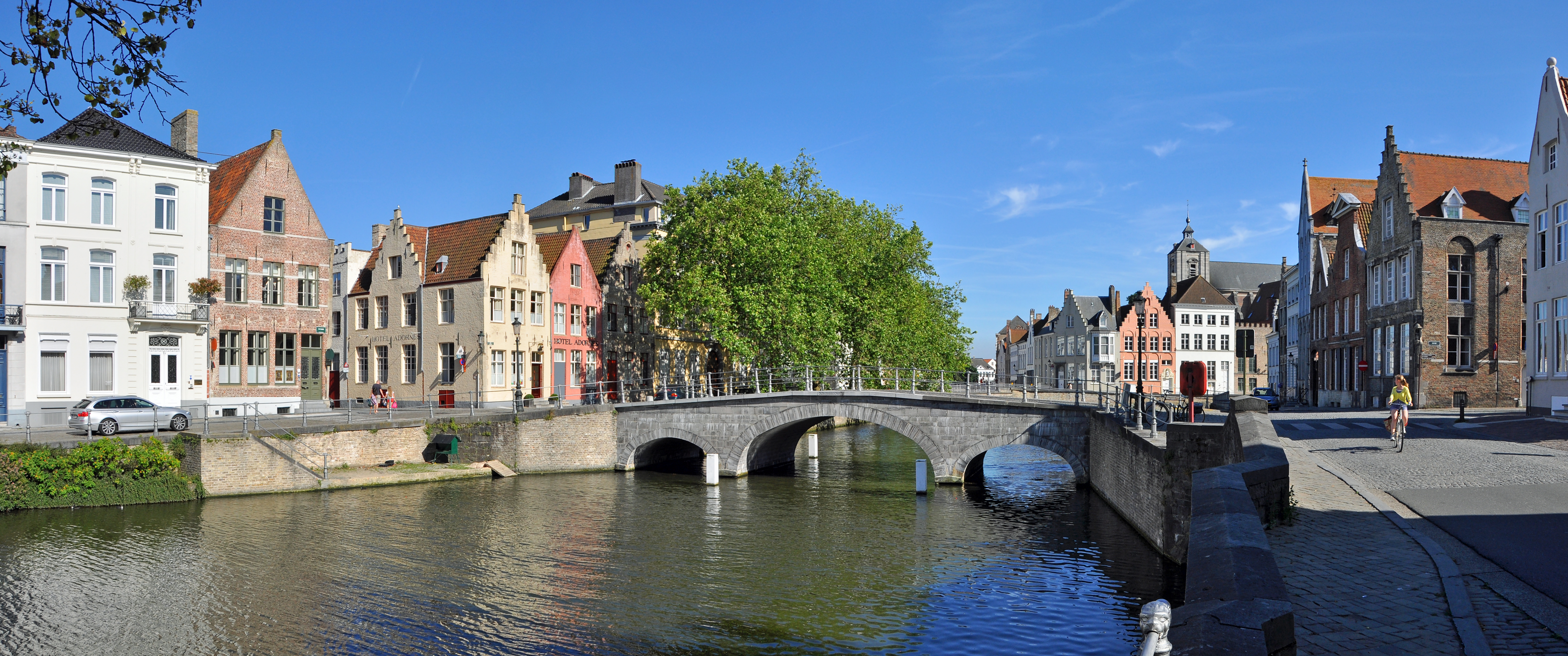 Bruges (Belgium): Carmersbrug (Carmelites' Bridge)